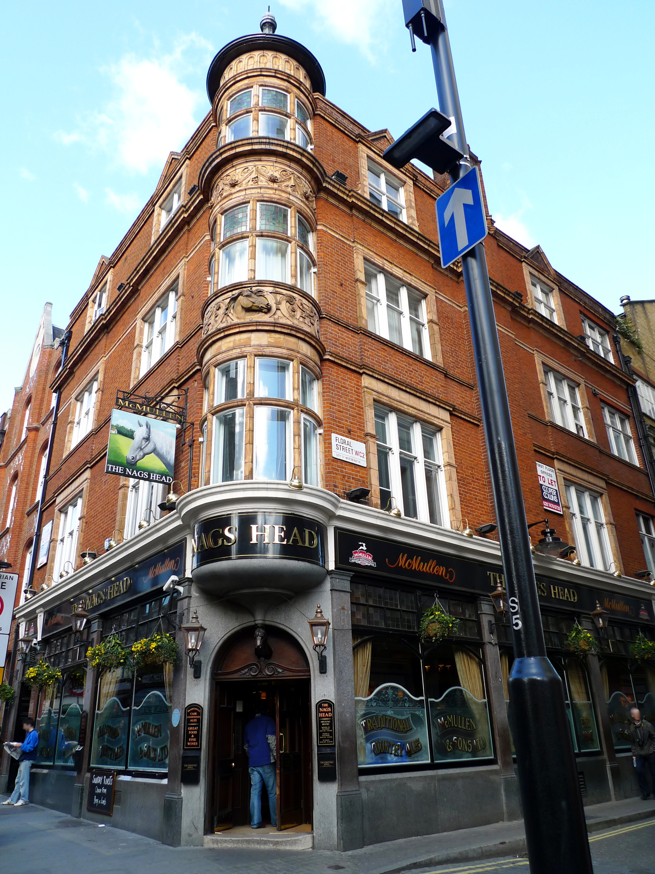 Given its proximity to the tube station and the Piazza, this is likely to get very busy with tourists. Address: 10 James Street. Owner: McMullen (website). Links: Fancyapint Beer in the Evening Qype Dead Pubs (history)